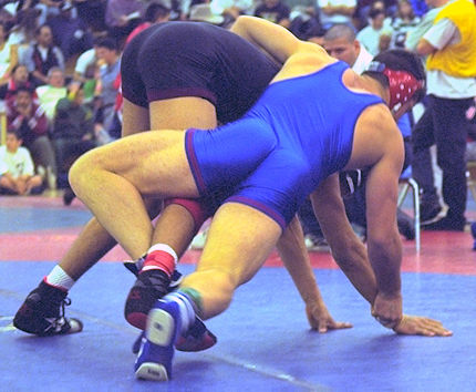 2 wrestlers in action